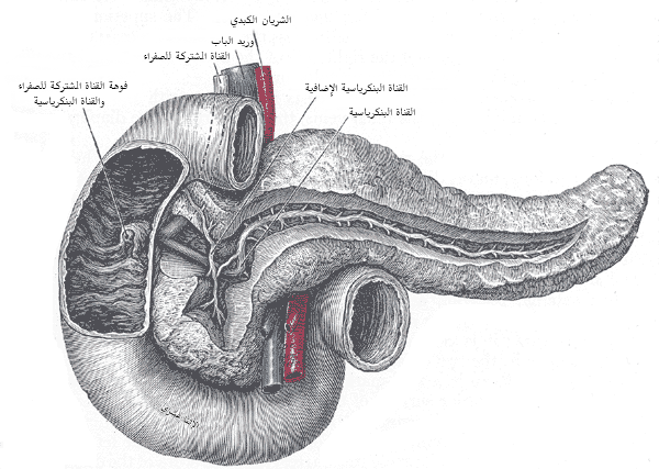 The pancreatic duct.